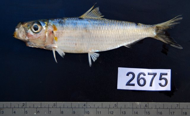 Herklotsichthys quadrimaculatus from off New Caledonia. Locality: Plage de l’Anse Vata, Nouméa, New Caledonia. Fork length 120 mm, Weight 25 grams. Date 2008/10/03